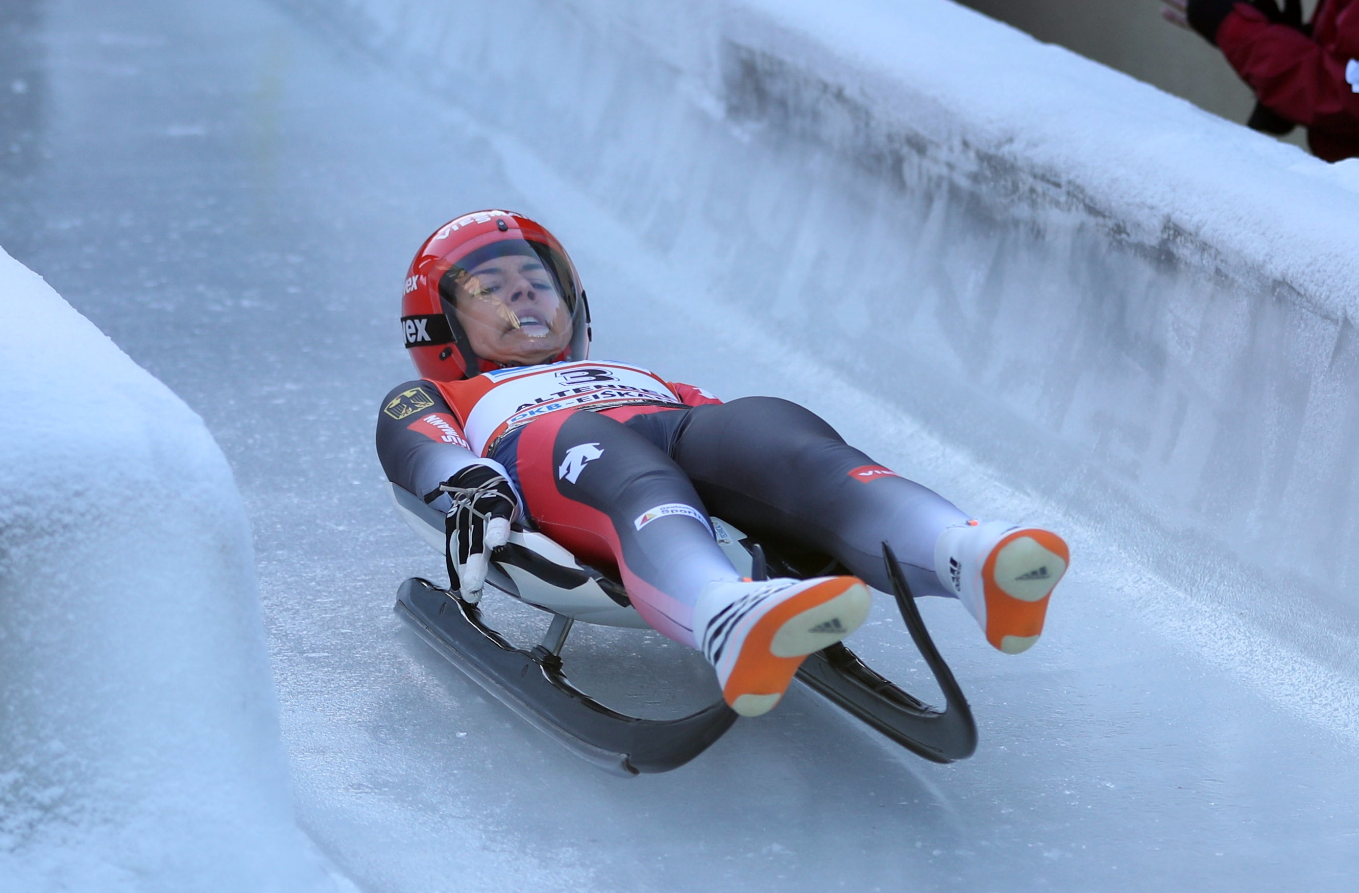 33rd Junior World Championship Luge, Altenberg 2018: Jessica Degenhardt